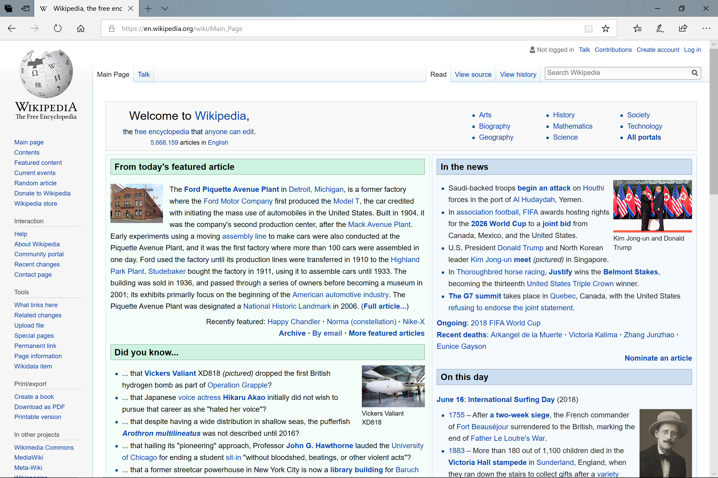 Screenshot of the Home Wikipedia Page (English), being rendered by the EdgeHTML 17.